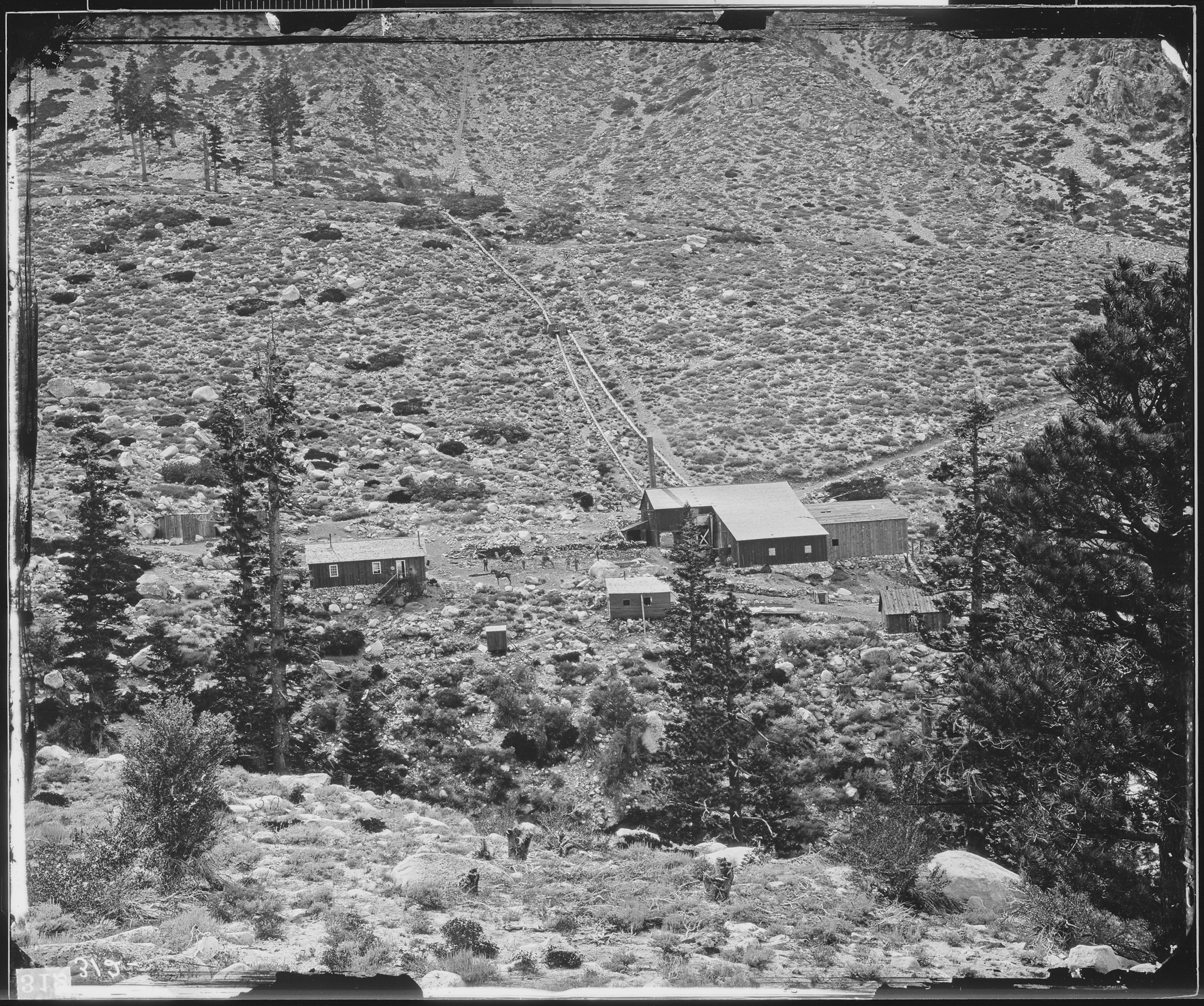 General notes: Kearsarge Mining Company's gold mine at Kearsarge, Kearsarge Mining District — in the Eastern Sierra Nevada, Inyo County, eastern California (1871).